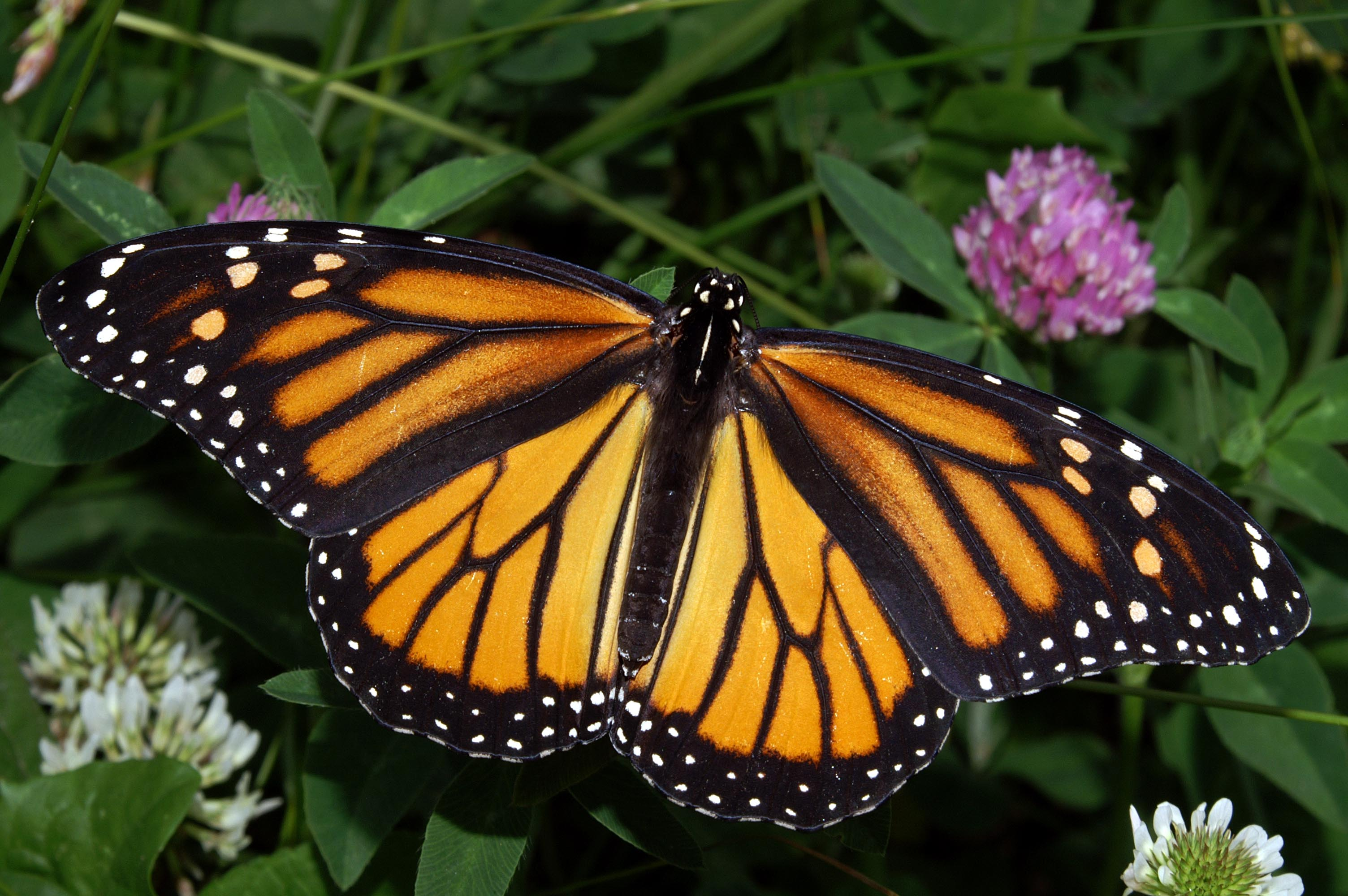 Photograph of a Monarch Butterfly